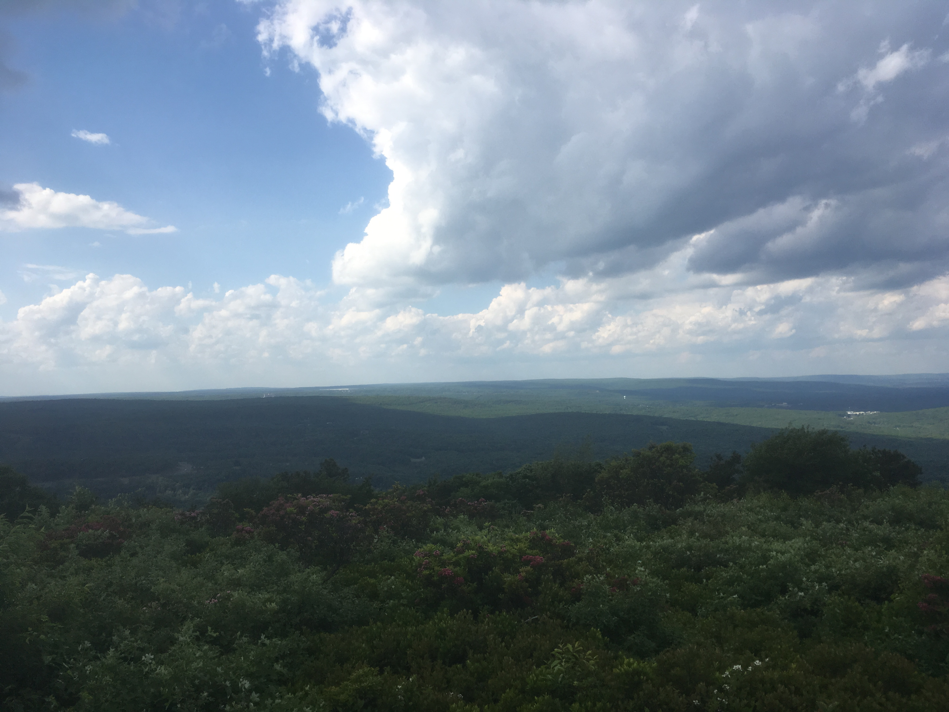 A view north from the top of Camelback Mountain in Big Pocono State Park in Monroe County, Pennsylvania